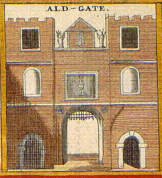 "Alders-gate", a crop of a 1690 map of London with boxed illustrations of the gates of below plan of city (full map).